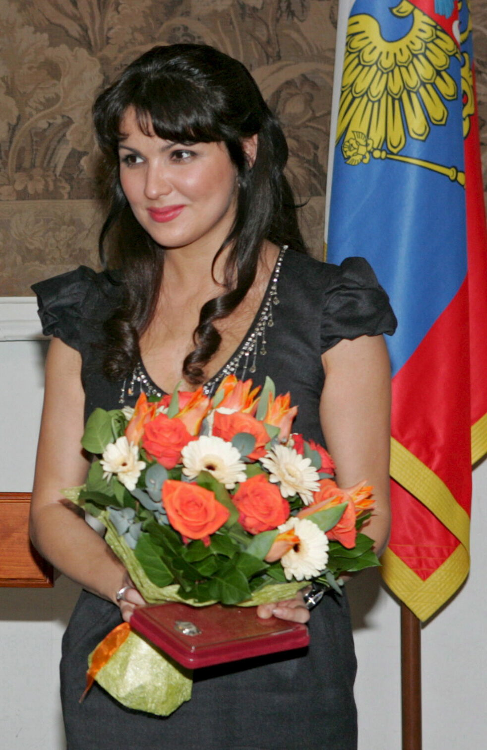 MARIINSKY THEATRE, ST PETERSBURG. State decorations award ceremony. Anna Netrebko, opera singer at the State Academic Mariinsky Theatre received the honorary title of People's Artist of Russia.